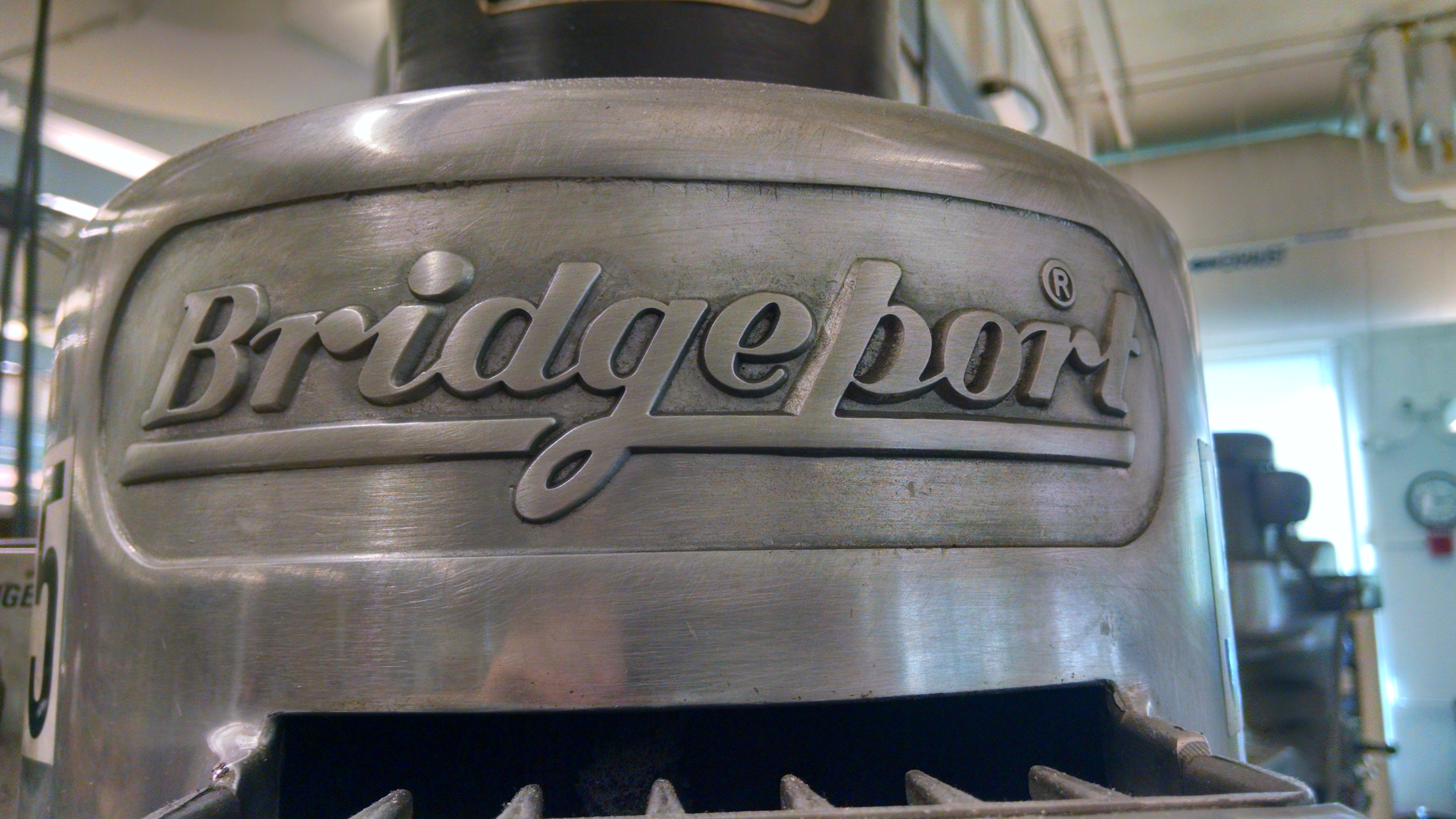 The Bridgeport Logo as stamped on the head of a Bridgeport Knee Mill.